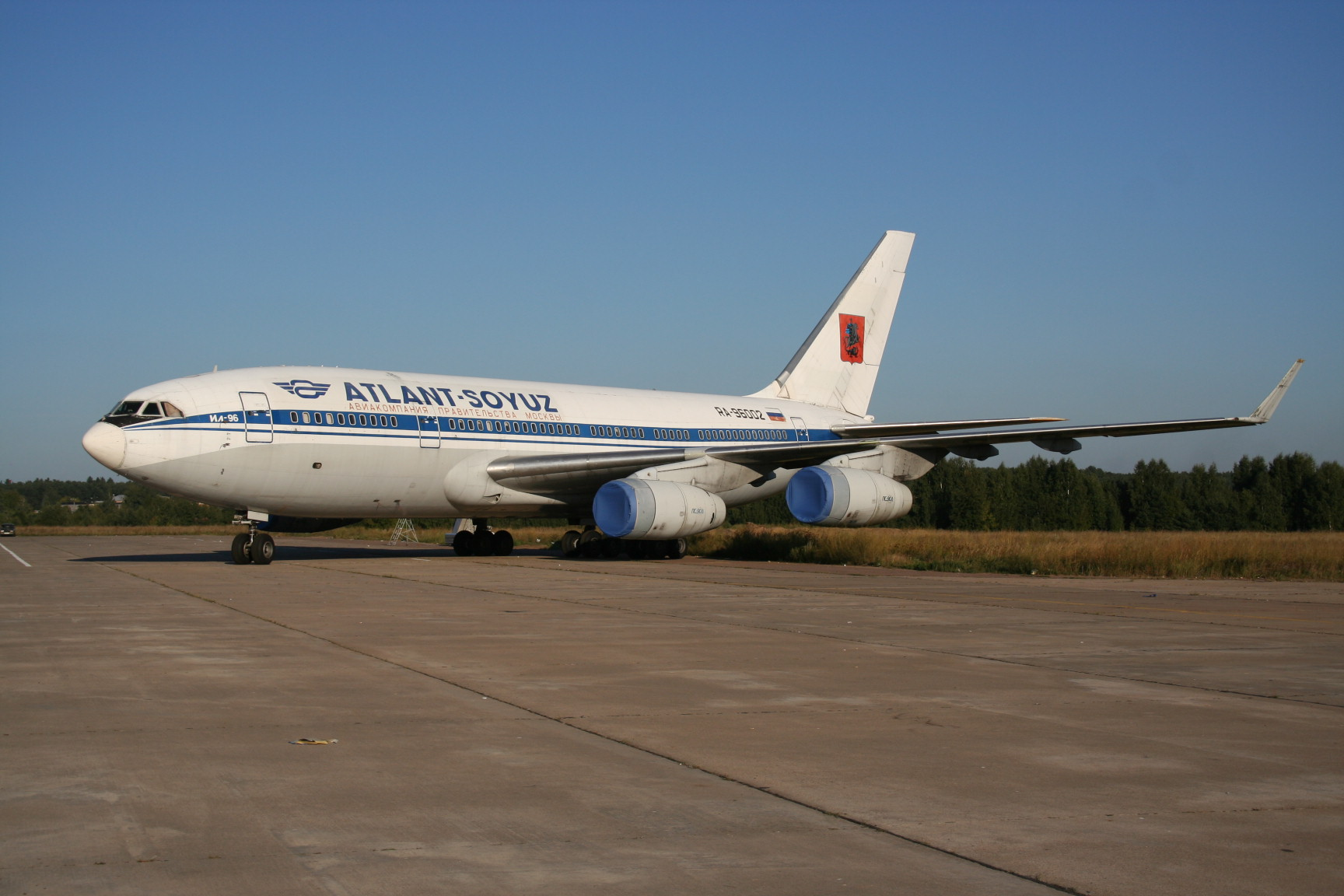 Atlant Soyuz Airlines Ilyushin Il-96-300 (RA-96002)